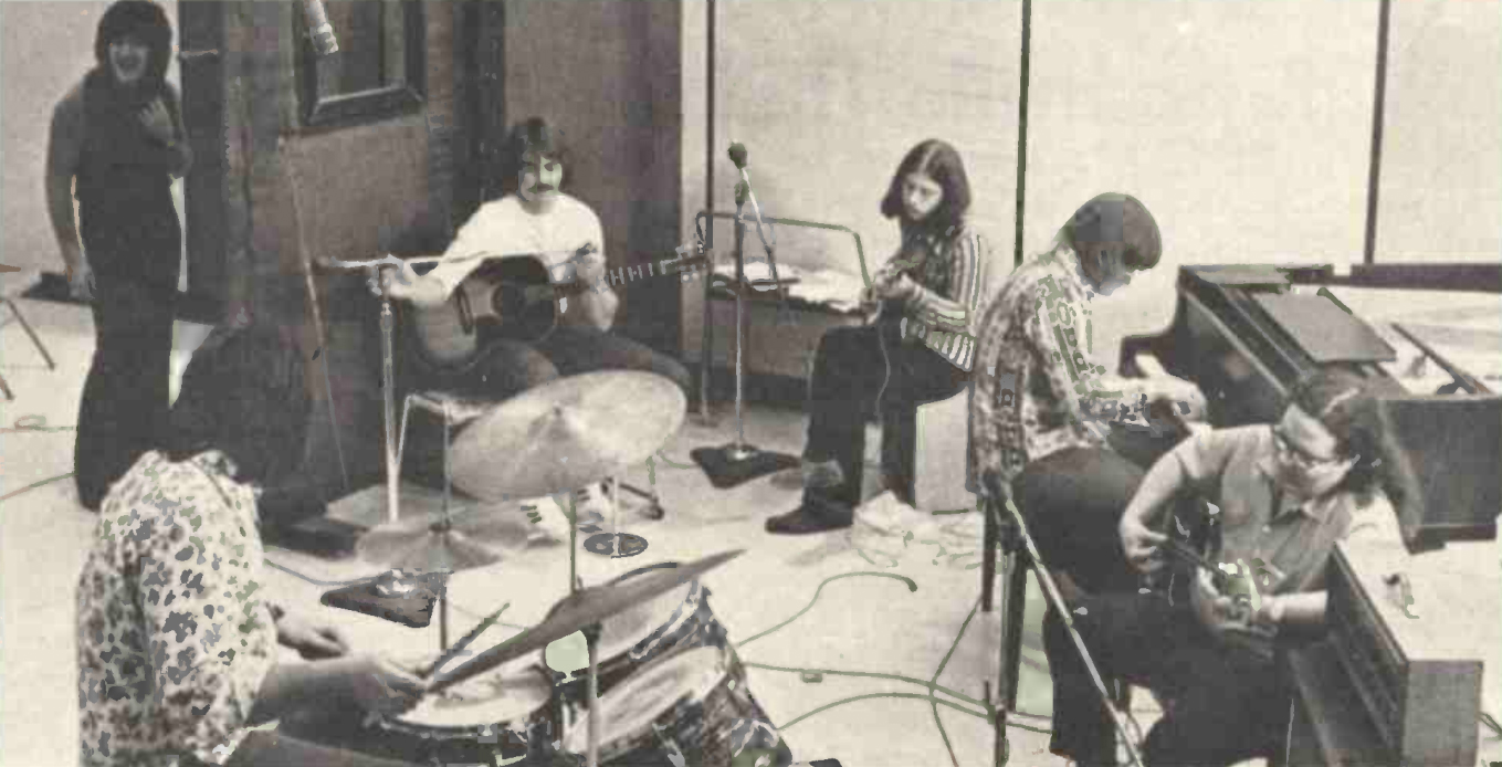 Atlanta Rhythm Section advert 1972.